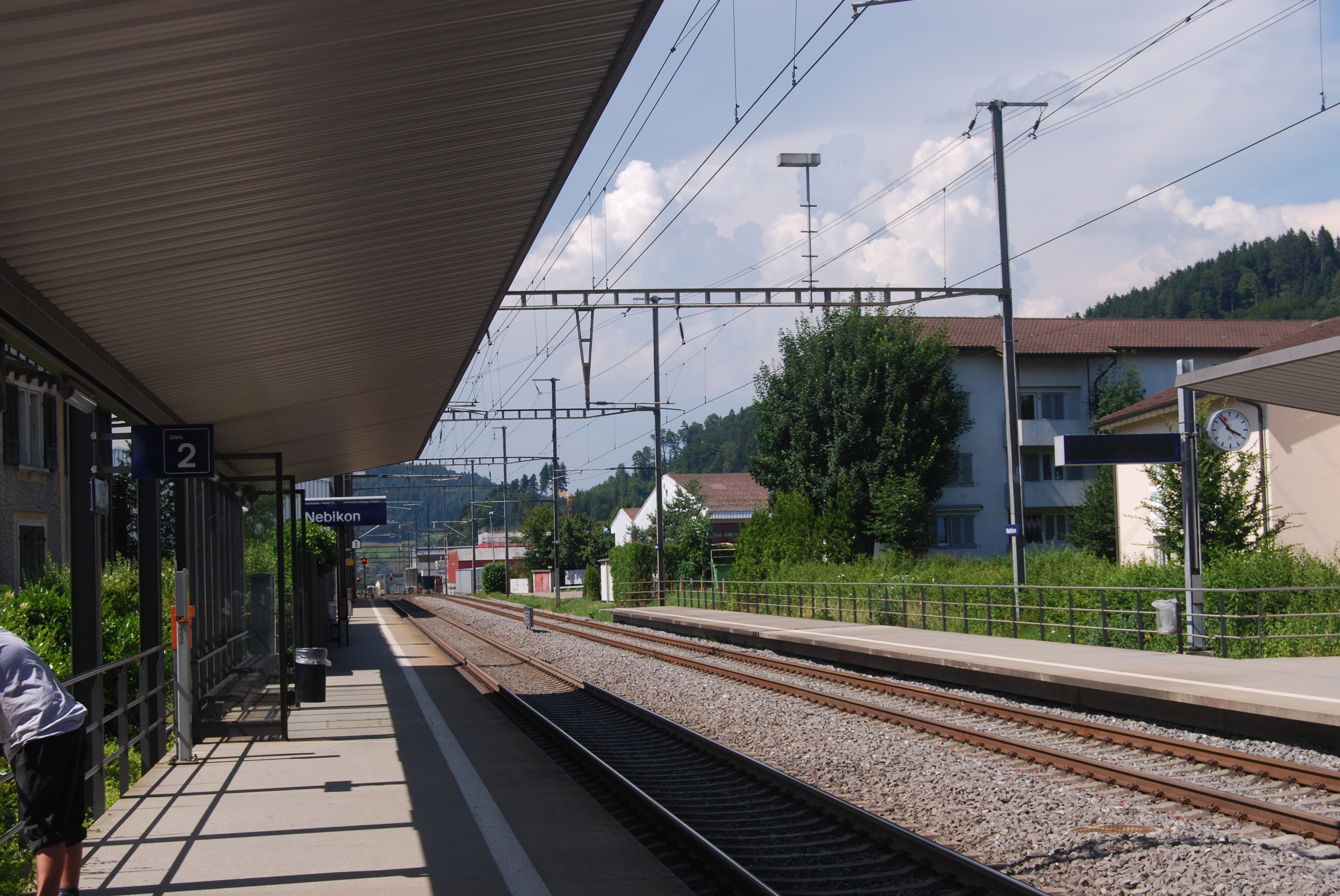 Train station of Nebikon, canton of Luzern, SwitzerlandEsperanto: Stacidomo de Nebikon, Kantono Lucerno, Svislando